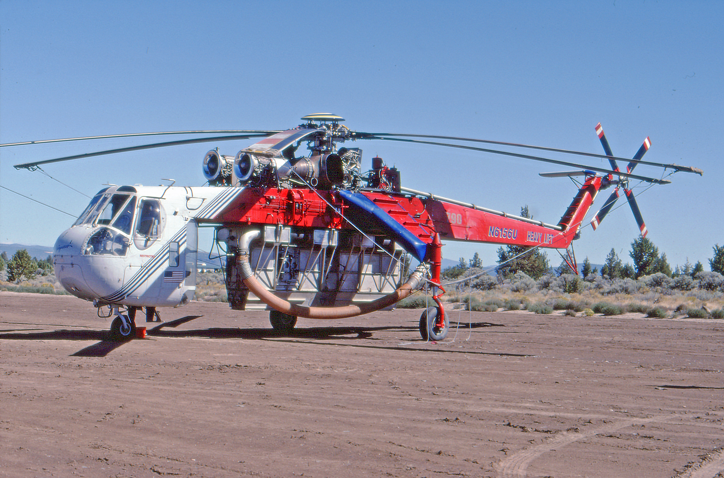 Sikorsky CH-54A Tarhe, s/n 66-18410, new to US Army in 1967. Later in civilian life a S-64A Skycrane, N6156U, Tanker 790, used for fire fighting missions flown by Heavy Lift Helicopters, Inc. Carrys two tanks, two doors on each tank, with total capacity of 2,600 US gallons. Shown here at the Prineville, Oregon, airport (PRZ/S39).